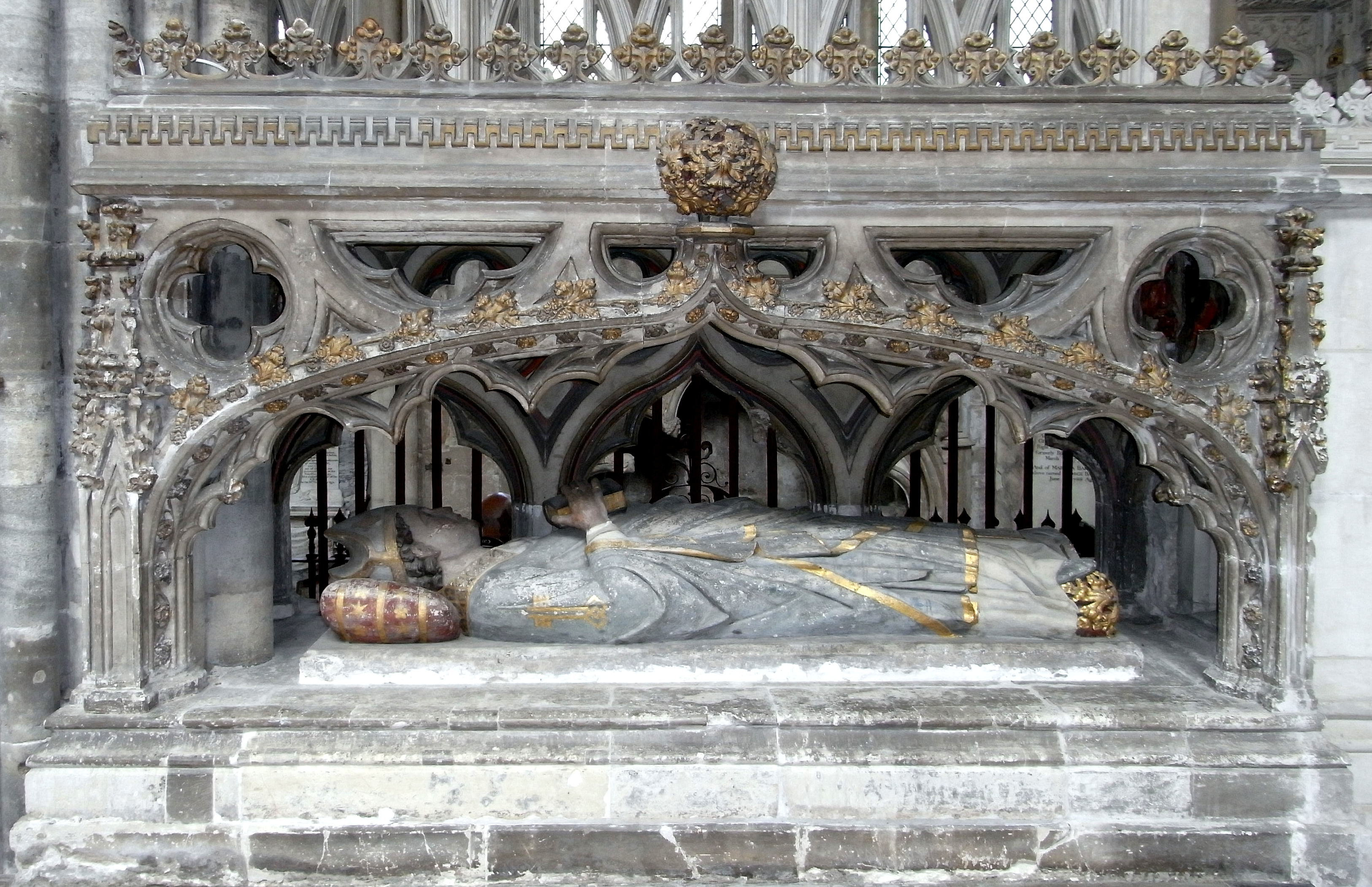 Monument to Bishop Walter Stapledon (1261-1326), Exeter Cathedral. Viewed from the high altar looking northward